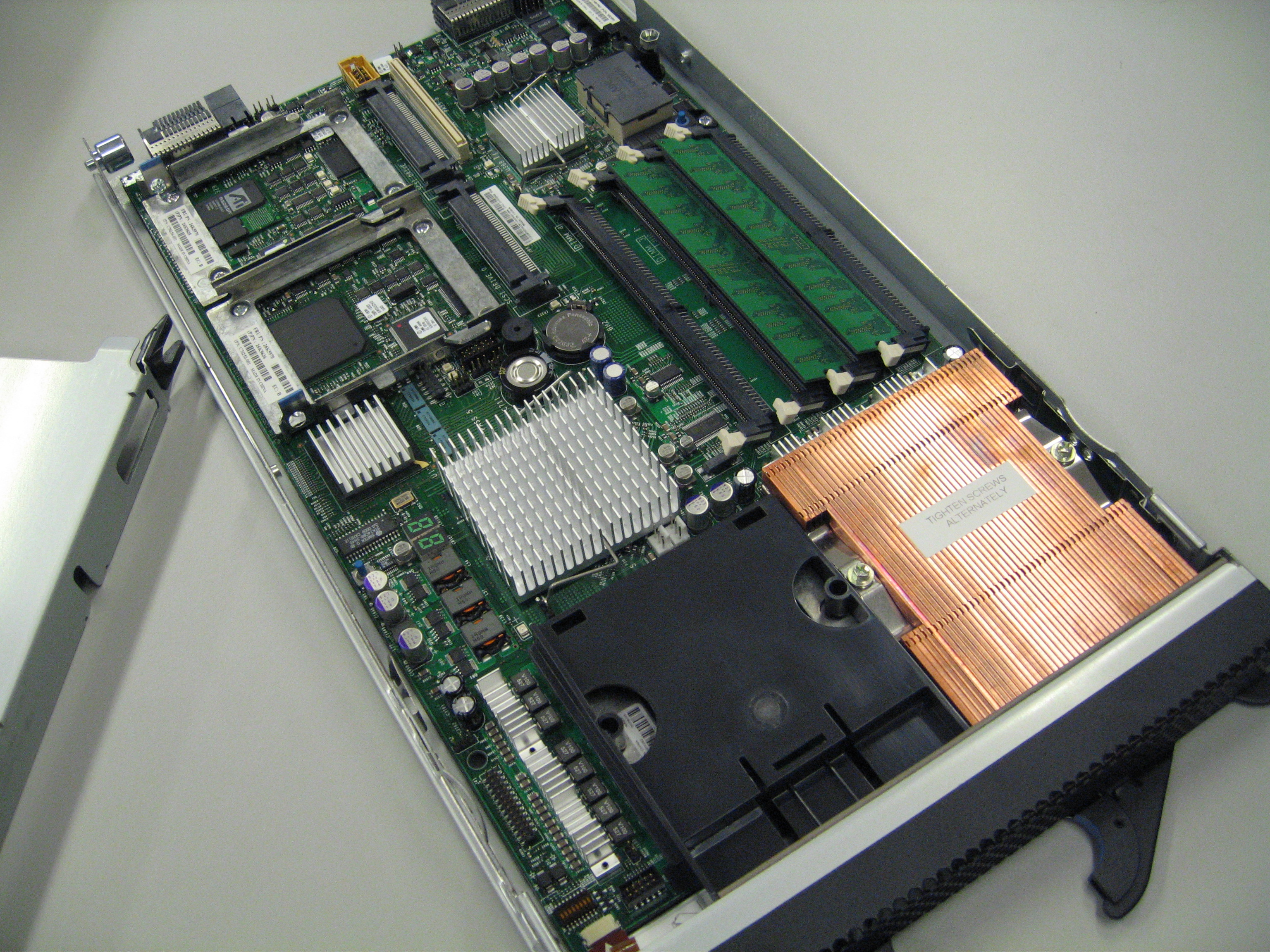 An IBM HS20 series blade server.